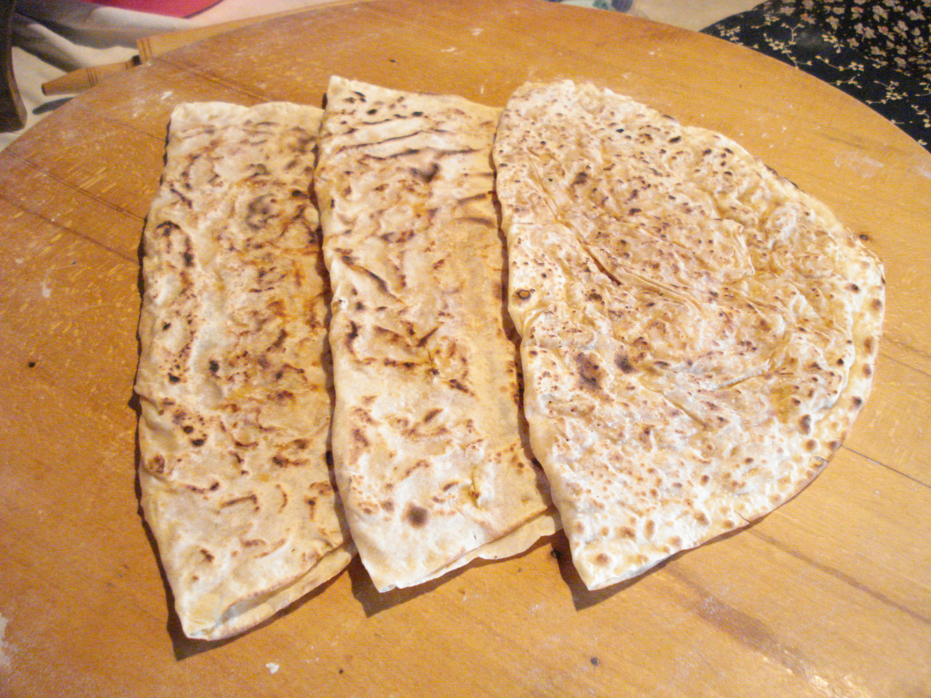 Bükme from Turkish cuisine